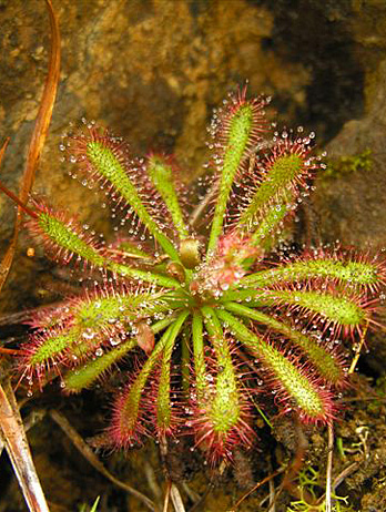 A young plant of Drosera ultramafica, photographed towards the summit of Mount Victoria, Palawan, during an expedition in June 2007.